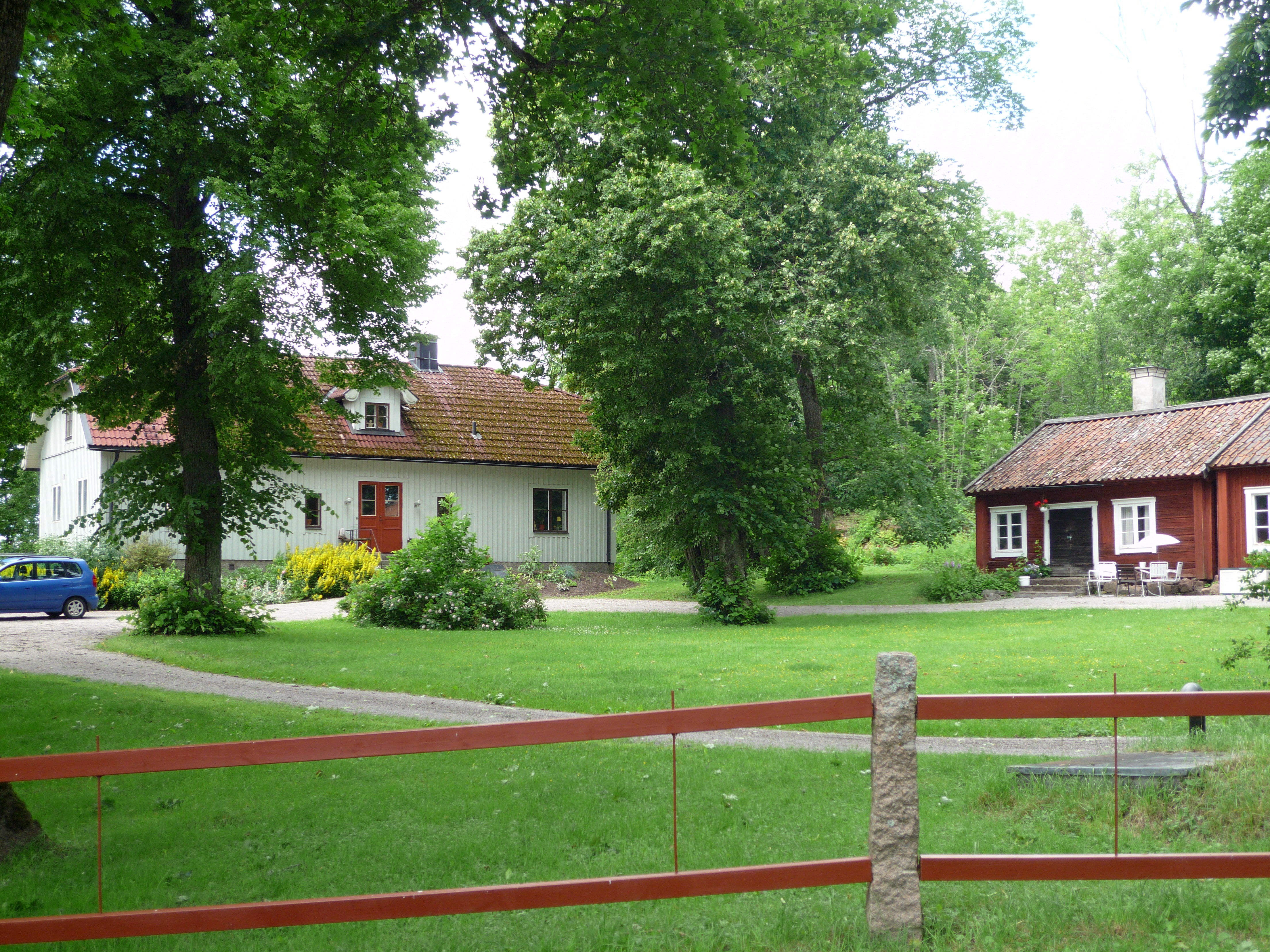 Börje rectory